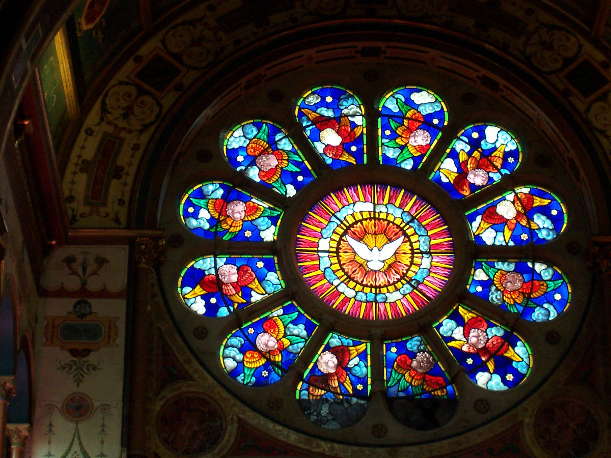 Beaumont chapel detail